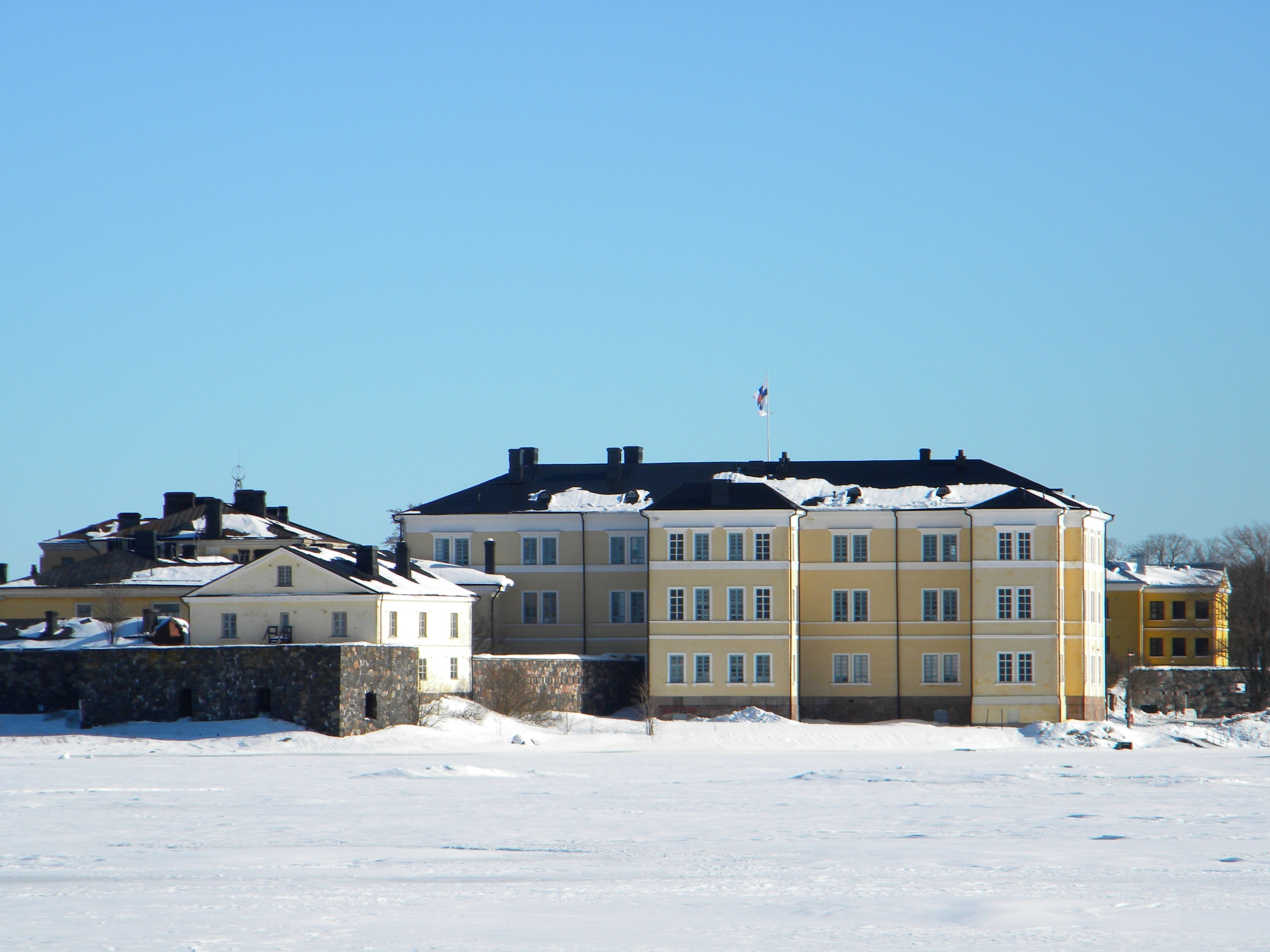 School of Naval Warfare by winter in Suomenlinna Sea Fortress in front of Helsinki, Finland.